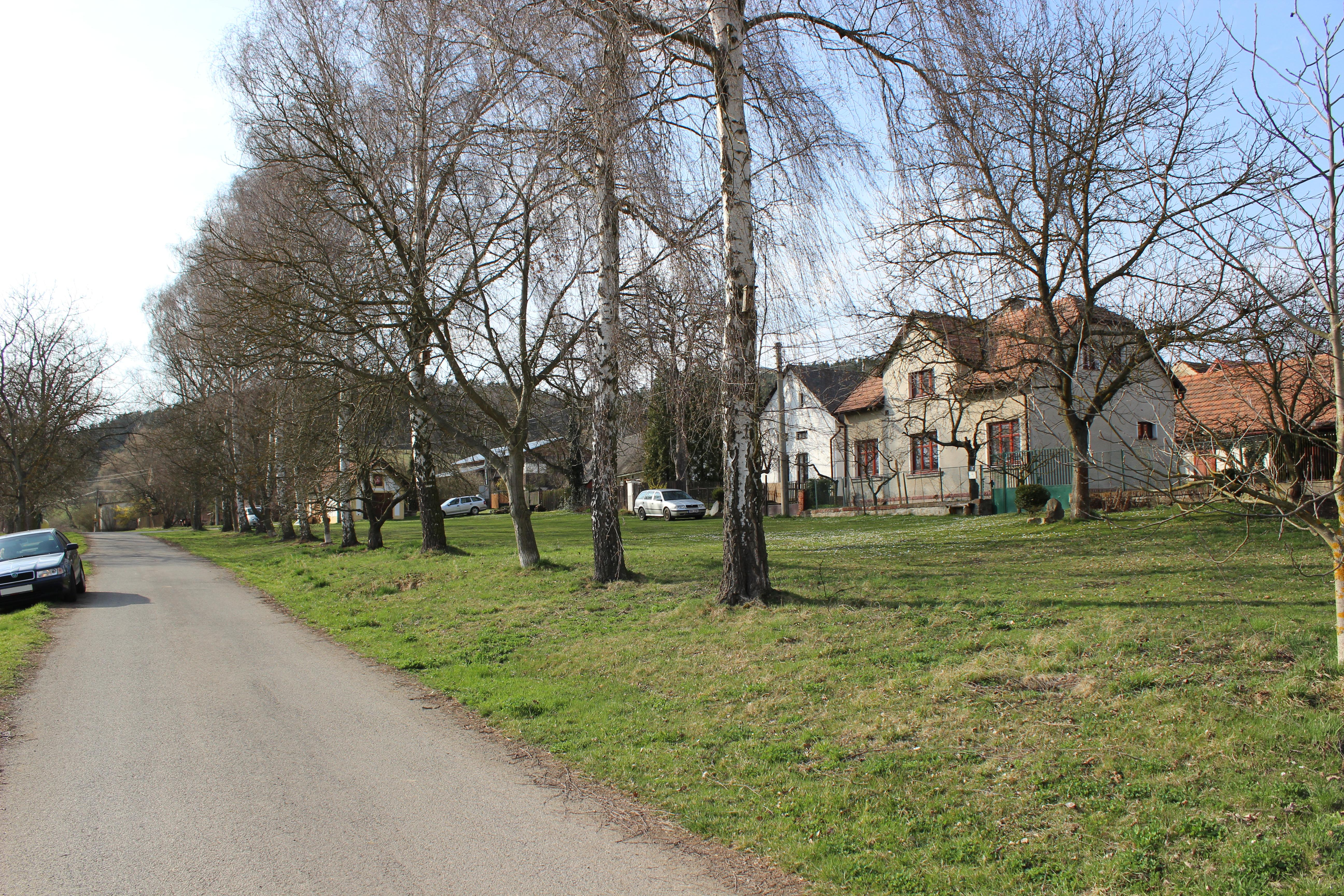 Náves v Sejcké Lhotě. This photograph was taken with a Canon EOS 600D.